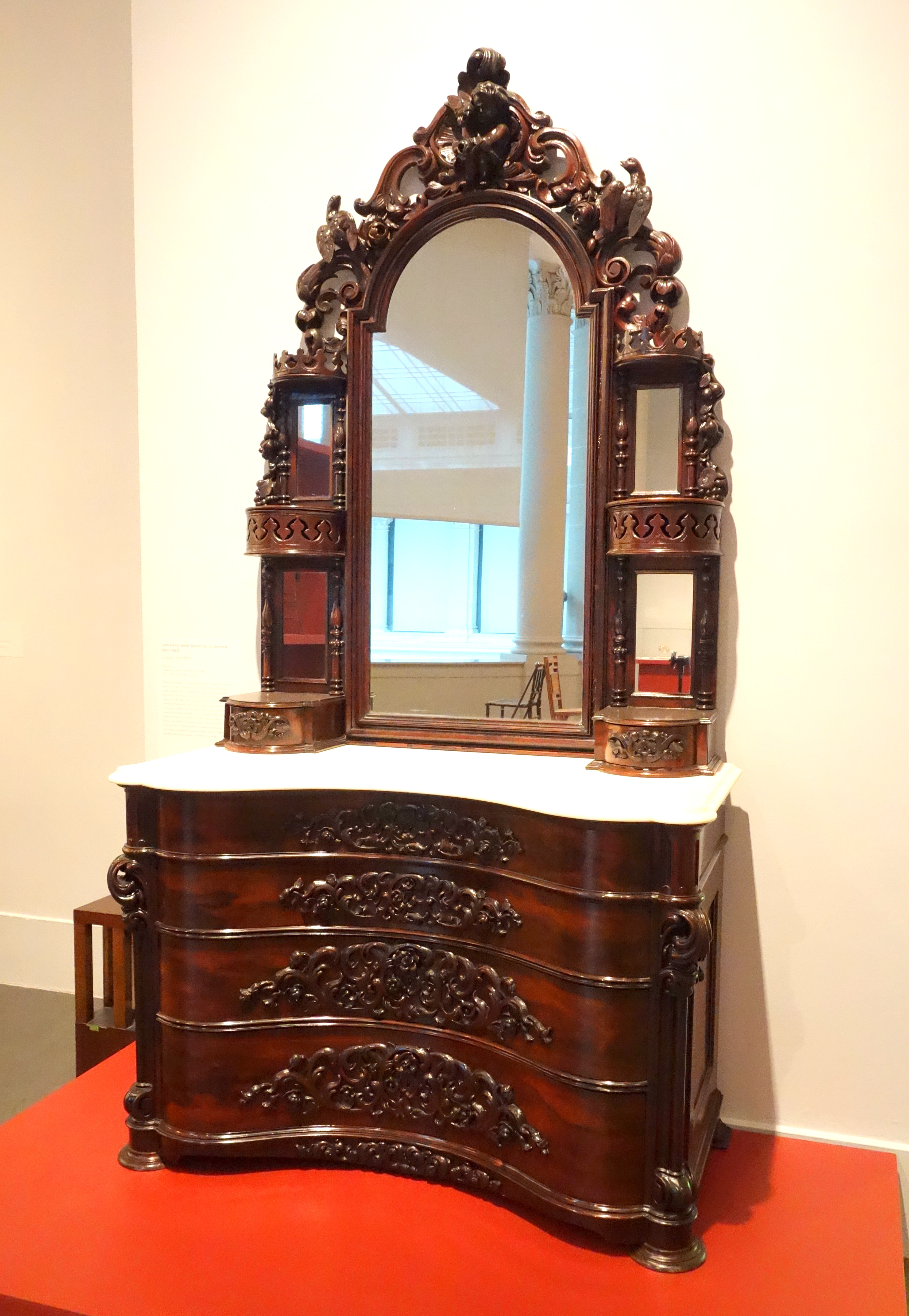 Exhibit in the Brooklyn Museum - Brooklyn, New York, USA. This artwork is in the public domain because the artist died more than 70 years ago.